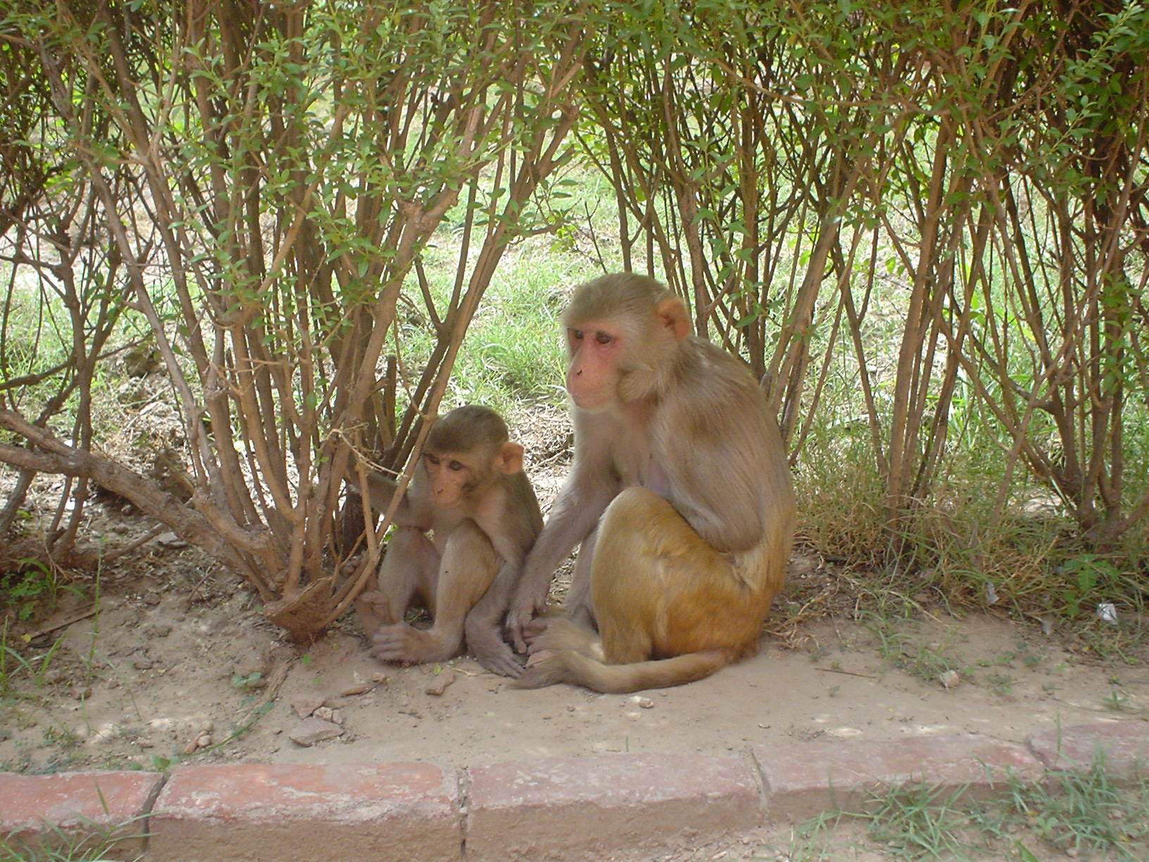 One female and one young Rhesus Macaque, photo made in the Red Fort in Agra, India.